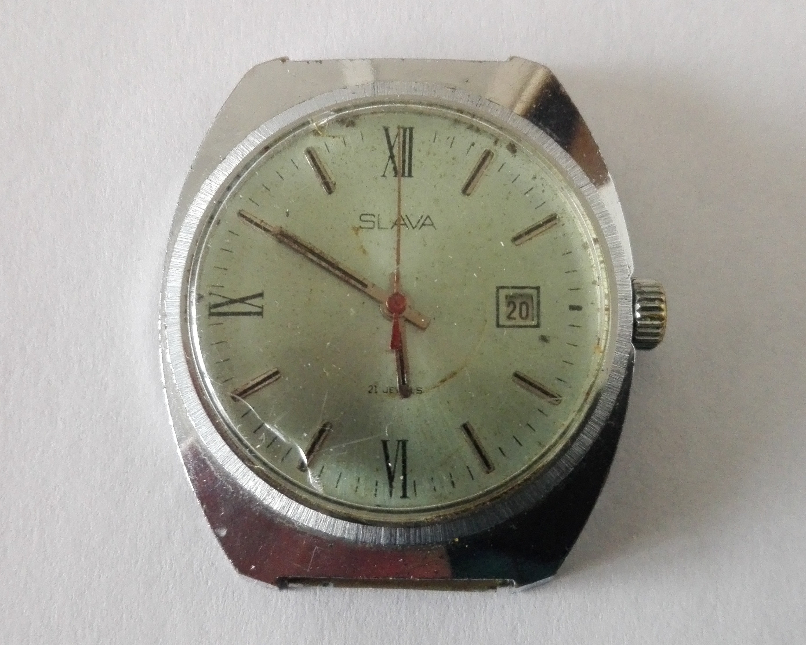 Russian watch „SLAVA“